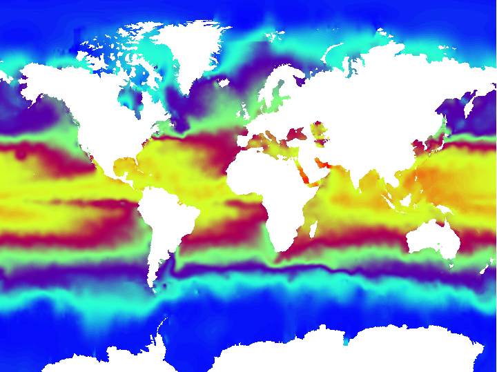 Température des océans observée en juillet 2010